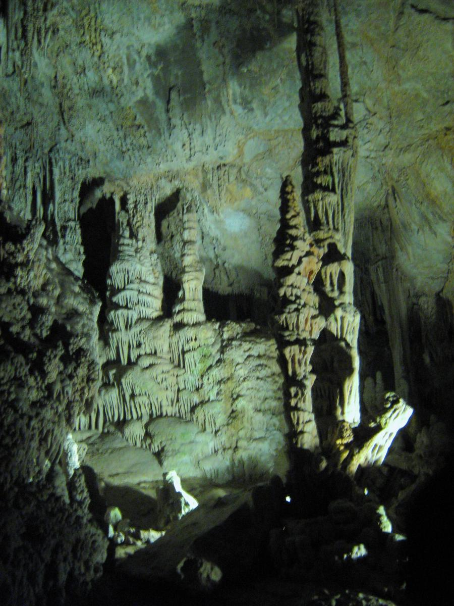 Interior of cave system, Lewis and Clark Caverns, Montana, USA